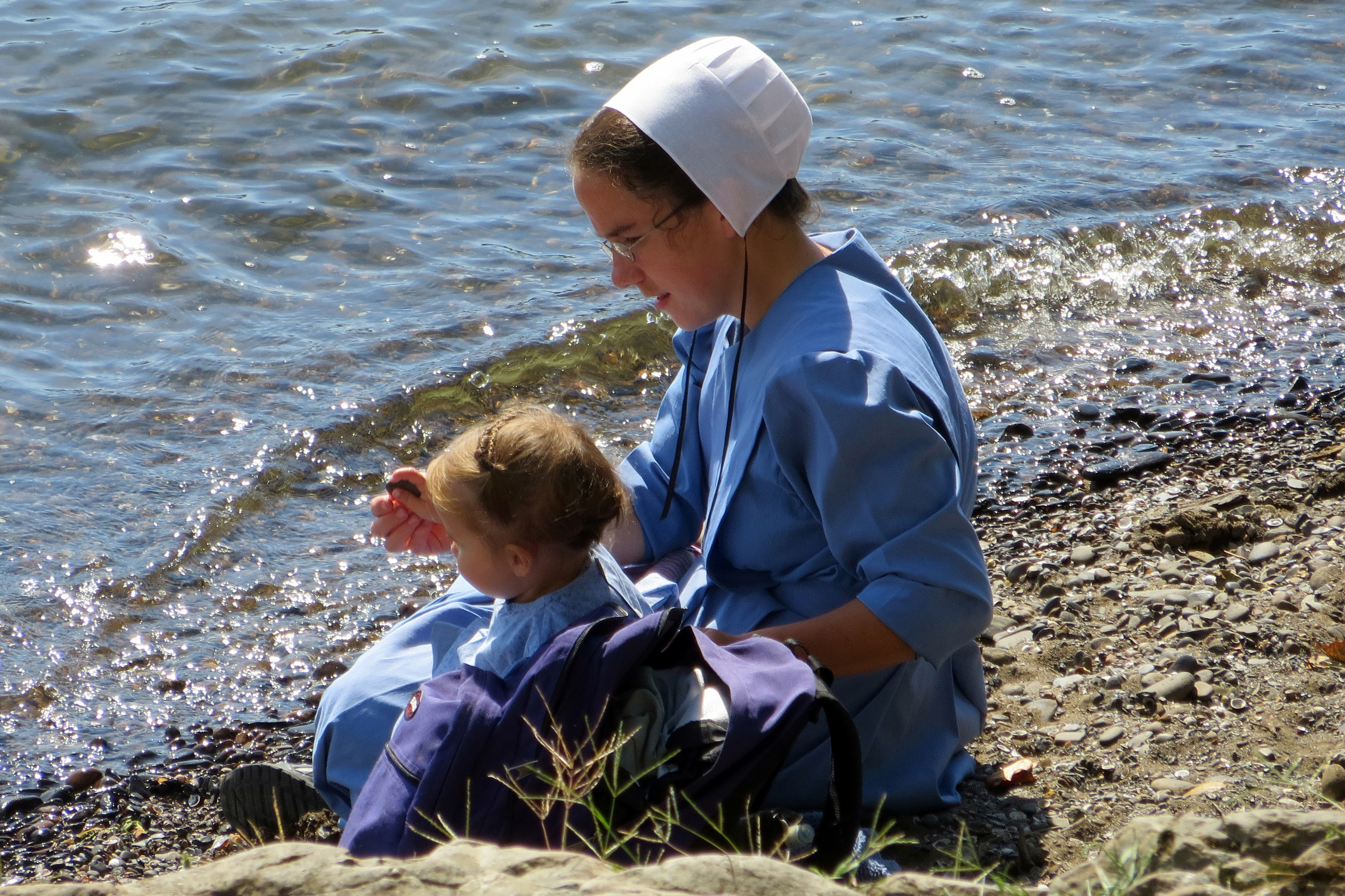 Mother and child McKee's Half Falls Rest Area on the Susquehanna River and US Route15. In Chapman Township, Snyder County, Pennsylvania - nearest town is Port Trevorton, Pennsylvania